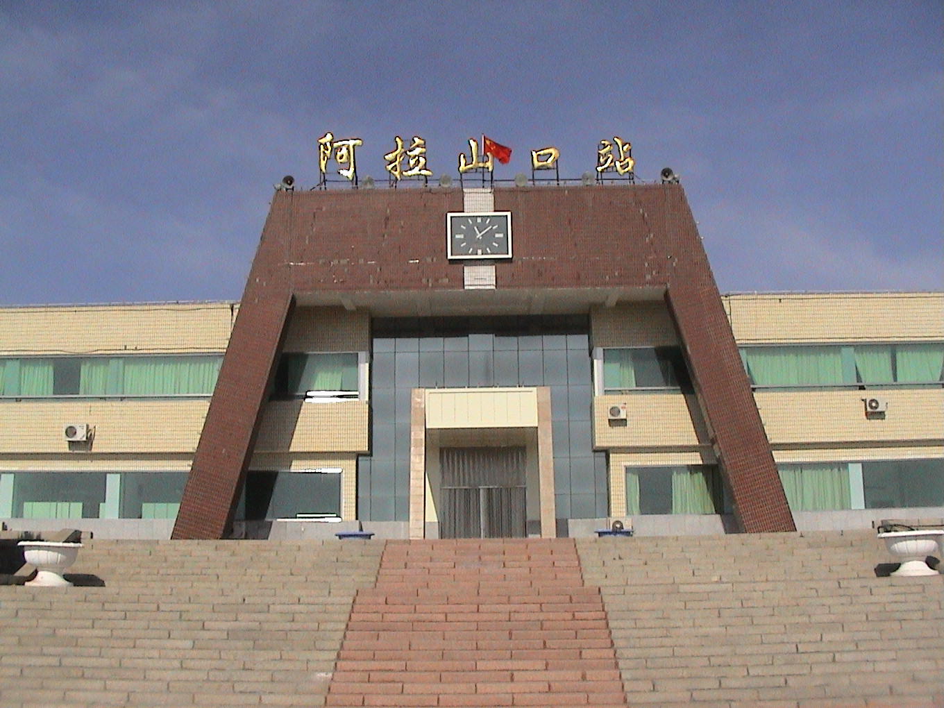 Alashankou railway station located at Alataw Pass, Börtala Mongol Autonomous Prefecture, Xinjiang Uyghur Autonomous Region, People's Republic of China 阿拉山口站 (中华人民共和国新疆维吾尔族自治区博尔塔拉蒙古自治州) 北京时间2006年04月26日11时05分17秒摄于阿拉山口车站月台。 This image was taken by User:Yaohua2000 at 2006-04-26 03:05:17 UTC.